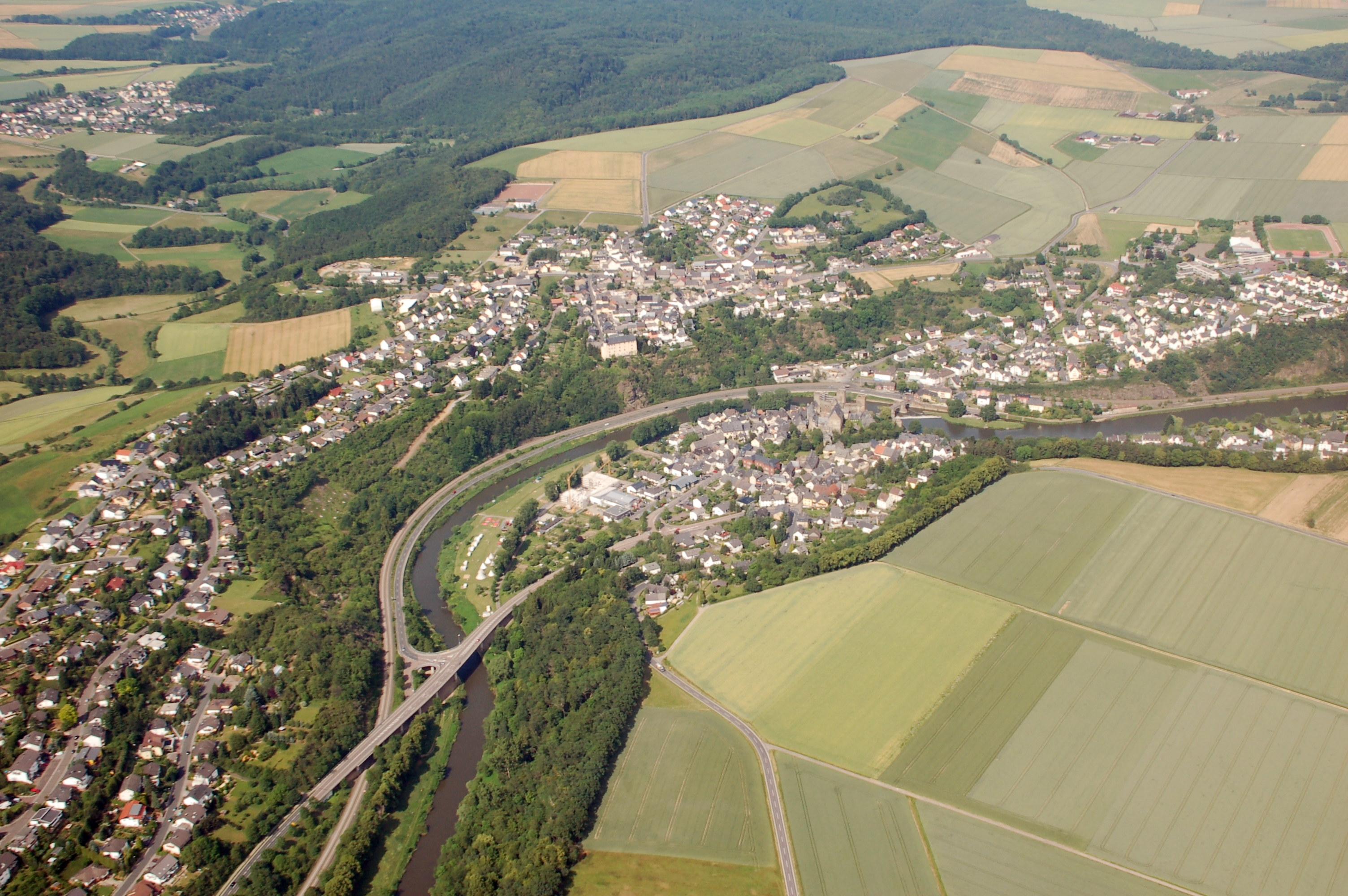 Aerial photograph of Runkel (Lahn), Hesse, Germany